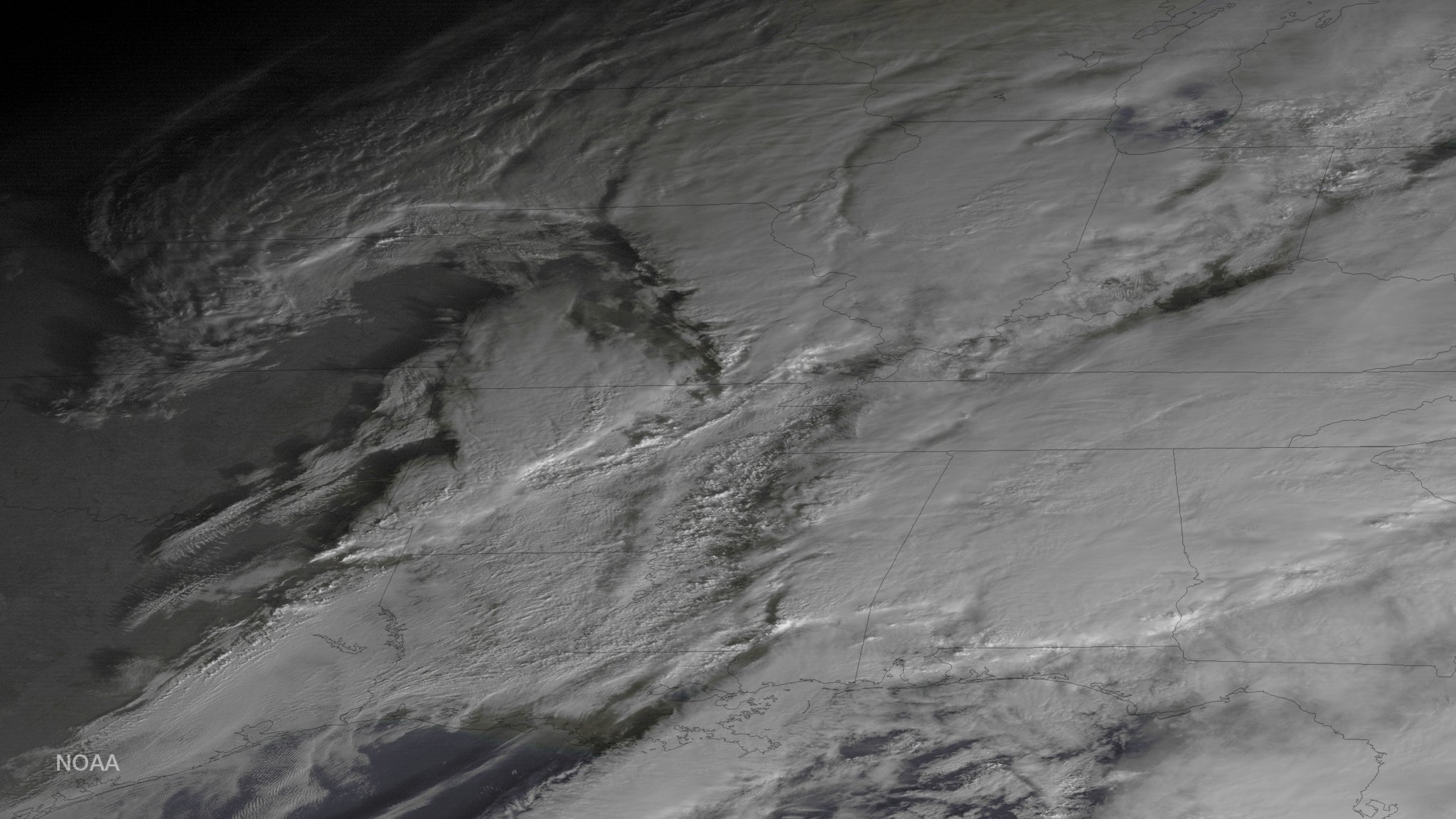 GOES EAST image of a developing storm complex over the Eastern United States on the morning of December 23, 2015. The system of thunderstorms would produce several tornadoes across the Eastern US as the day progressed.